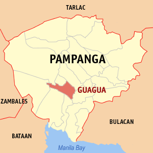 Map of Pampanga showing the location of Guagua